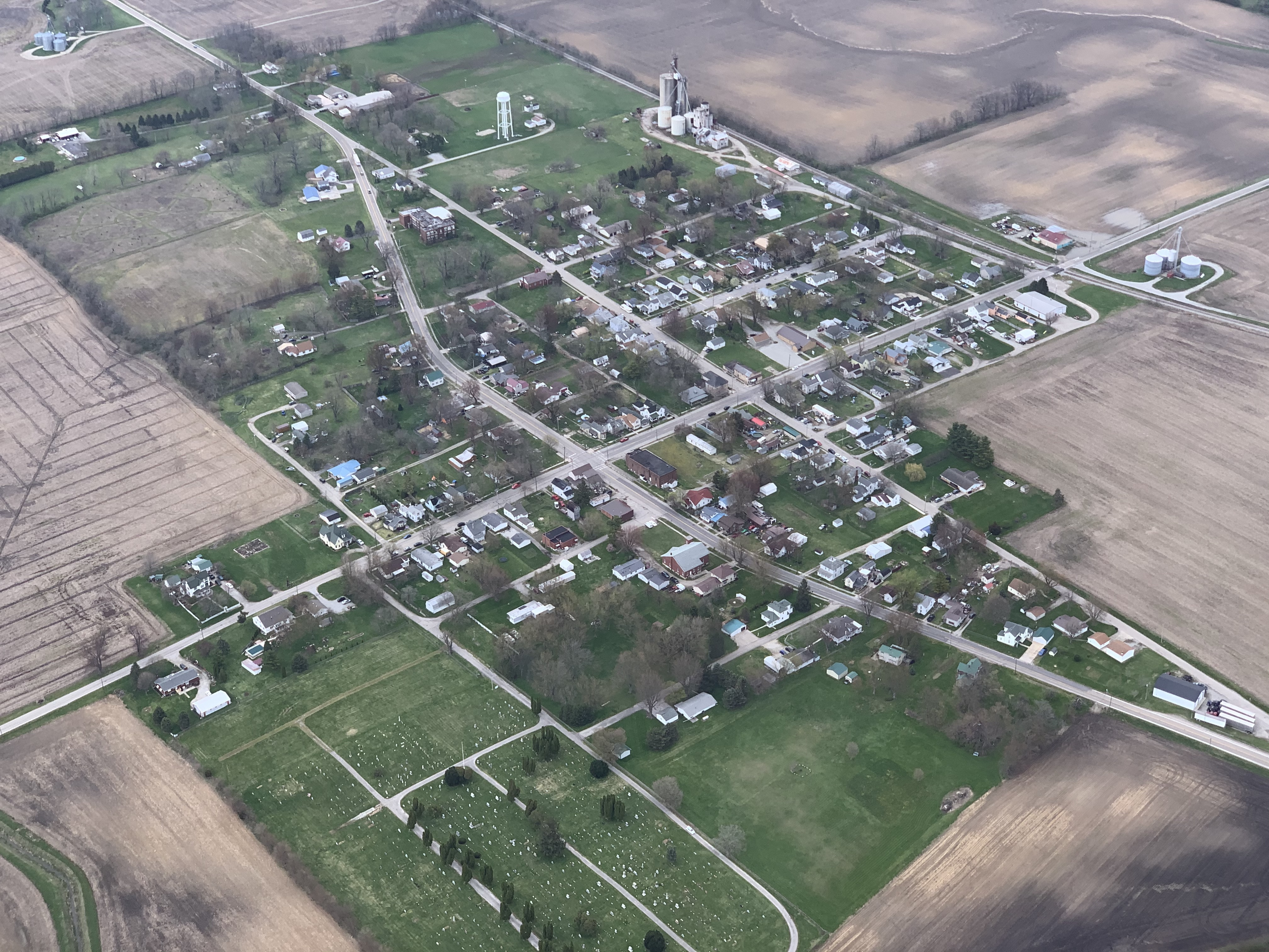 Aerial photo of South Solon, OH taken .6 miles southwest of the intersection of OH State Route 41 and OH State Route 323 at an altitude of approximately 4,500 feet MSL.